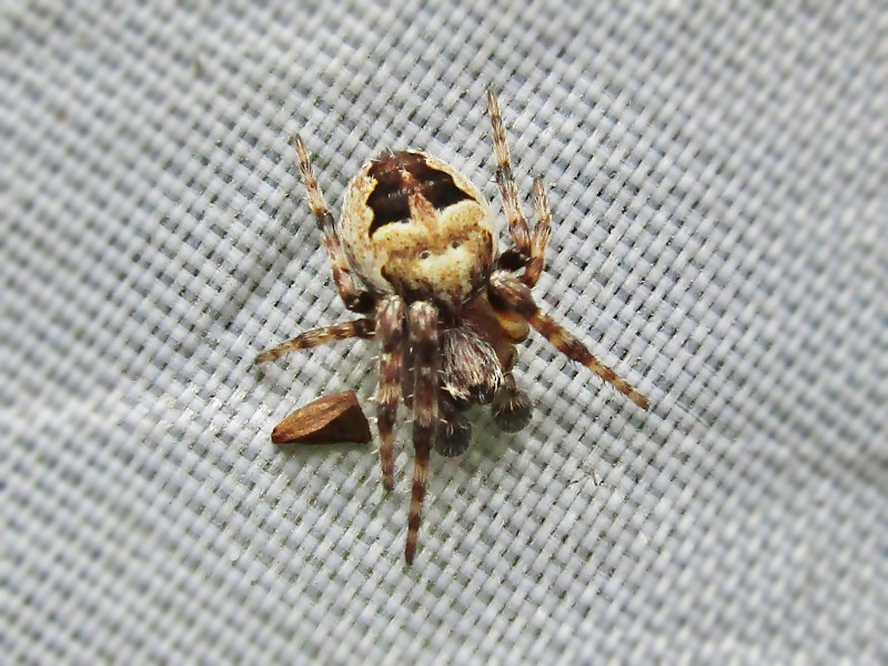 Larinioides patagiatus (Araneidae) - (male subadult), Arnhem - Rijkerswoerdse Plassen, the Netherlands